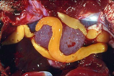 Adult Gigantolina elongata in the body cavity of a long-necked turtle, Chelodina longicollis